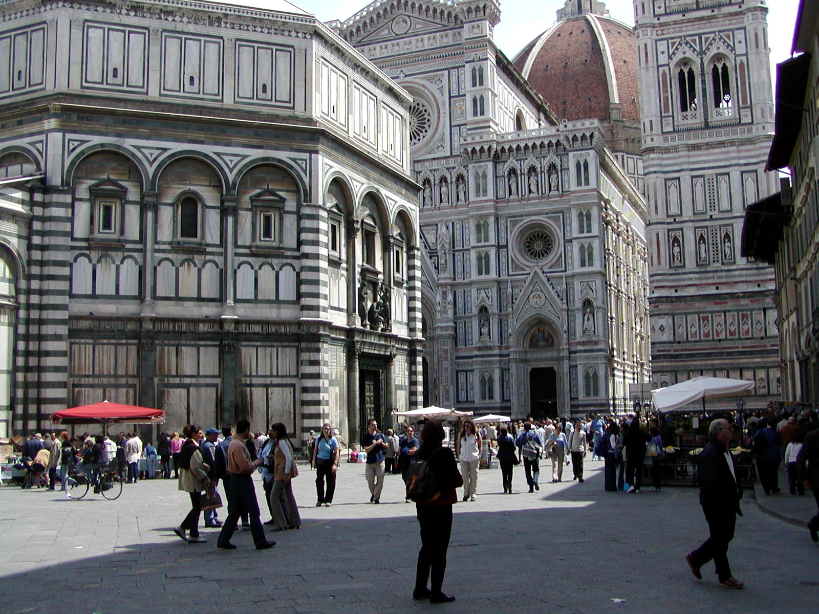 Place in Front of Dome of Florence with Battisterio